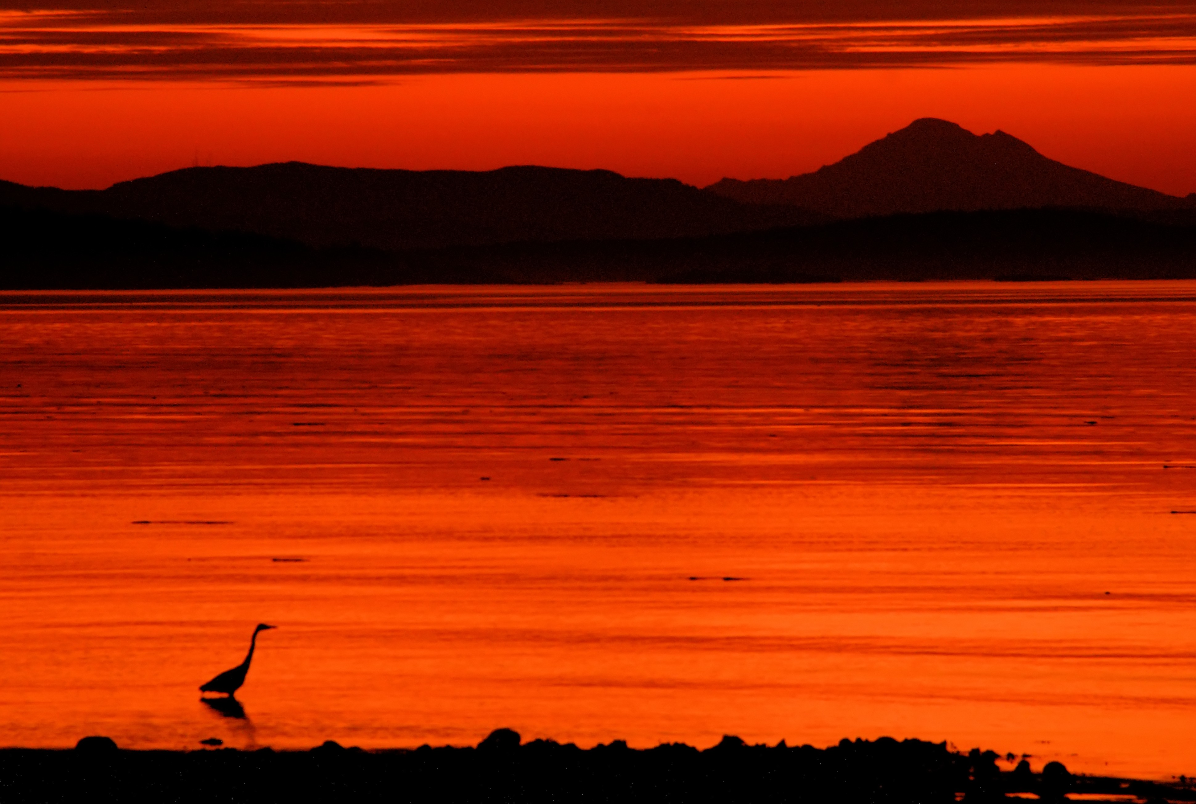 Island View Beach, BC - Sony a300 - ISO 400, f8, 135mm. - Tamron 28-200 I got up before the crack of dawn this morning to go catch the sunrise with Ireena. We weren't expecting anything special, but boy were we in for a surprise. It was a gorgeous red sunrise. There we're even Herons and otters there enjoying it too. =D